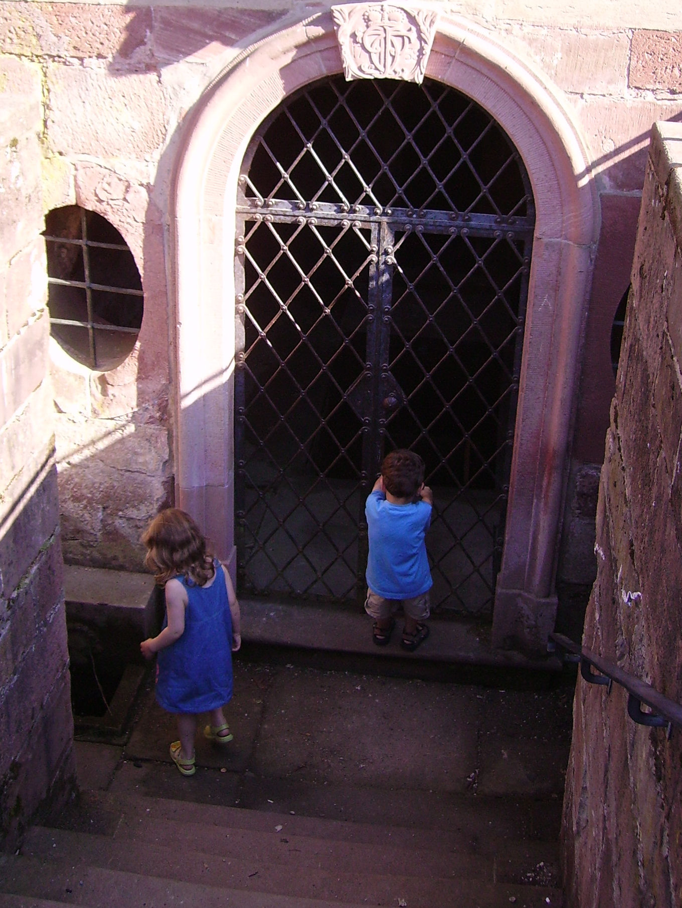 historic fountain of Heidelberg castle (Heidelberger Schloss)